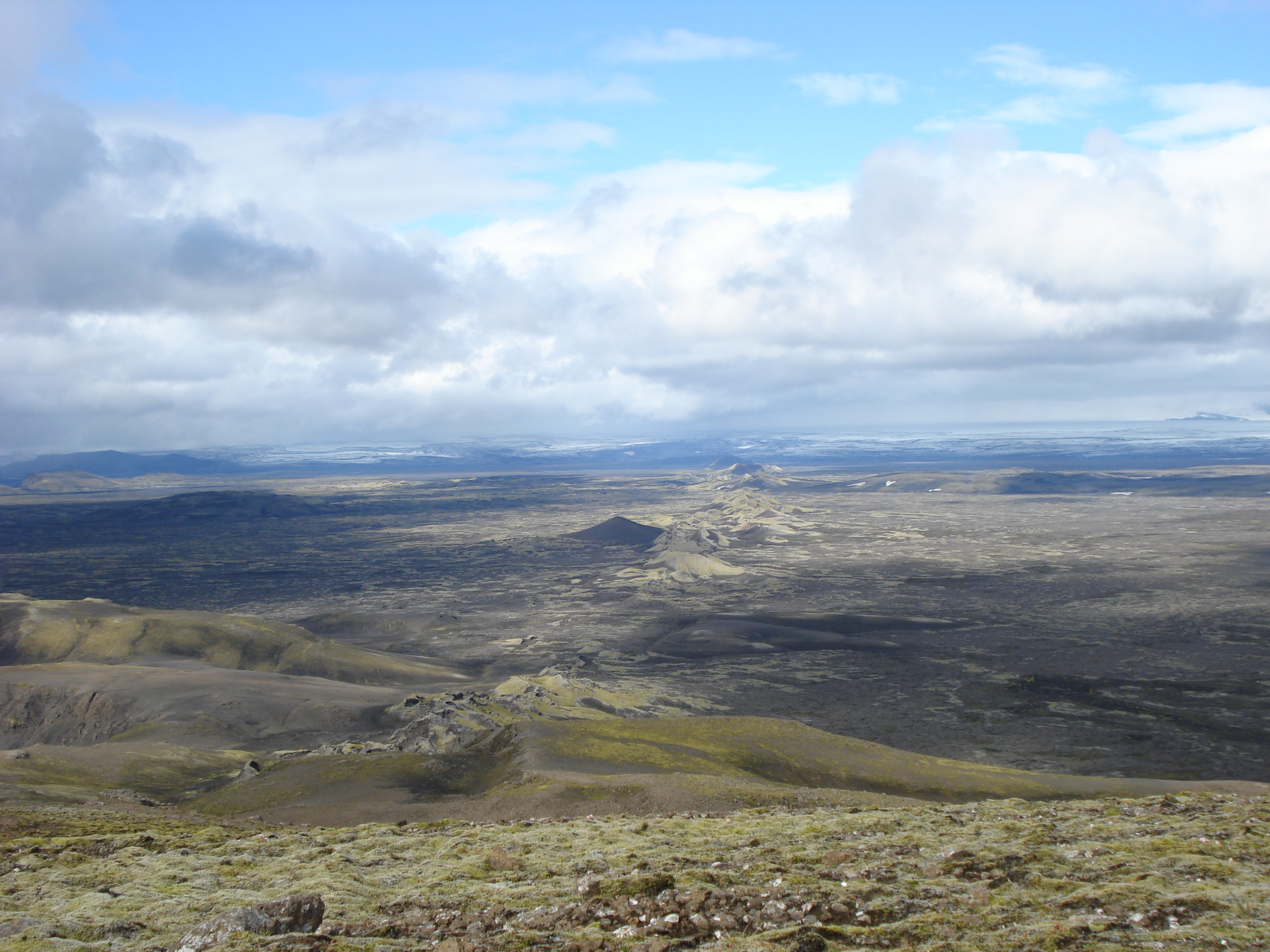 Looking eastwards from Laki over the ridge of Lakagígar.